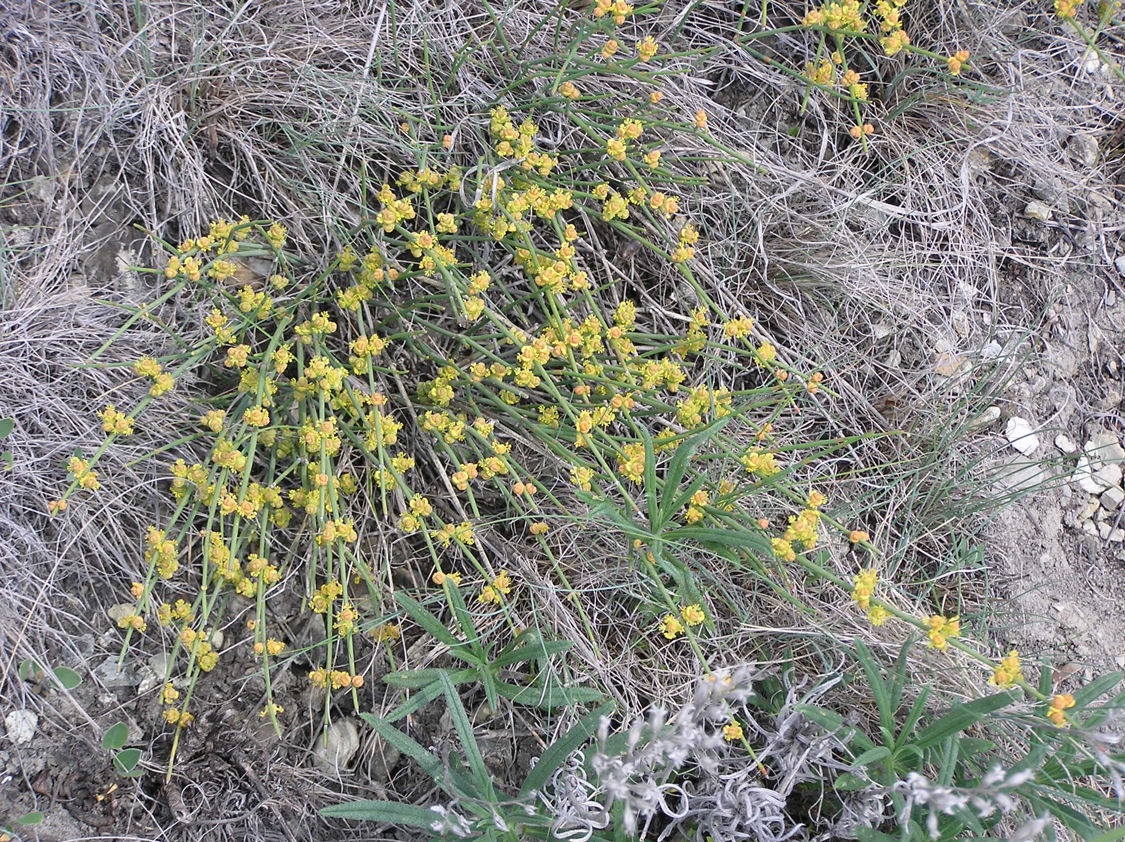 Ephedra distachya (L.), male plant in bloom. Habitat: southern chalk slope. Vicinity of Saratov city, Russia.